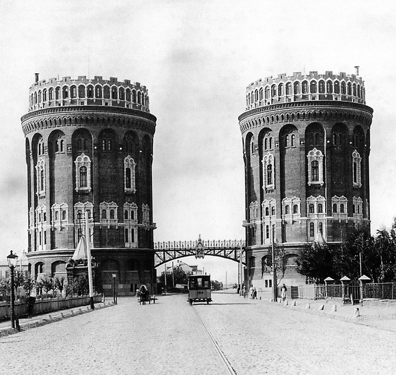 Moscow, Water Towers, 1900-1910